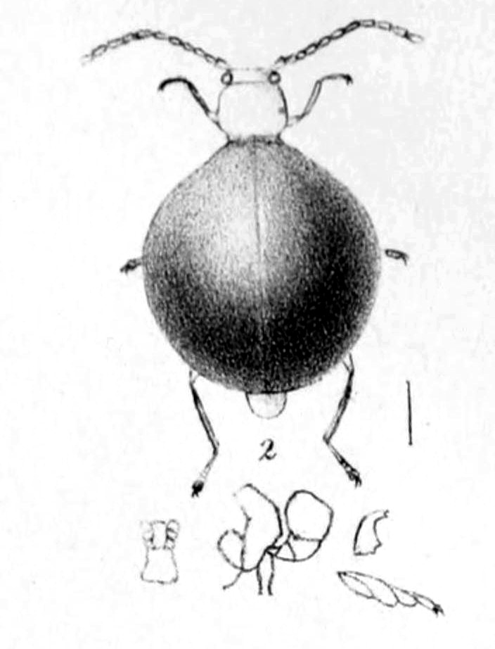 Choresine advena - Moluccas